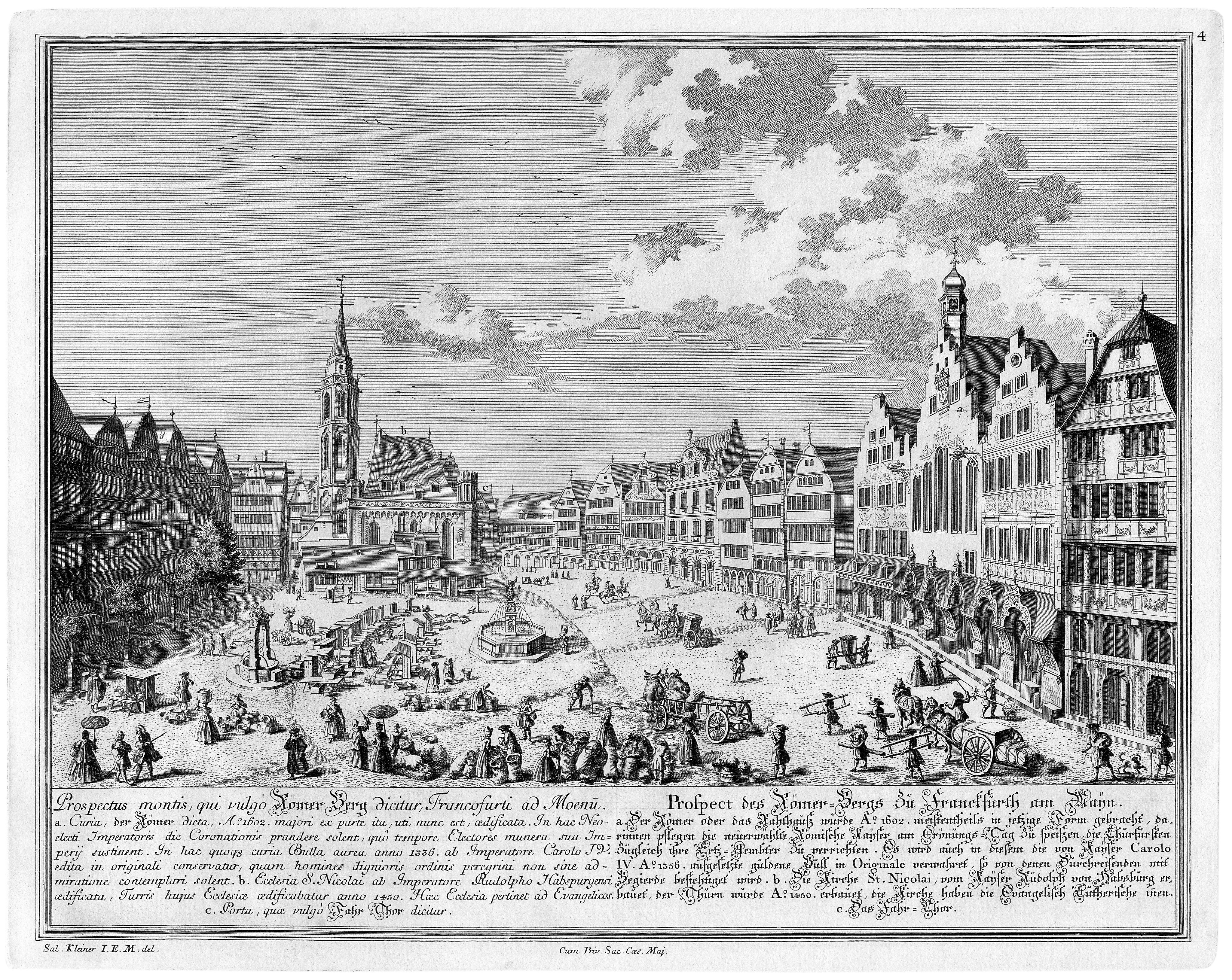 Frankfurt on the Main: Prospect of the Roemer-Berg in Frankfurt on the Main.